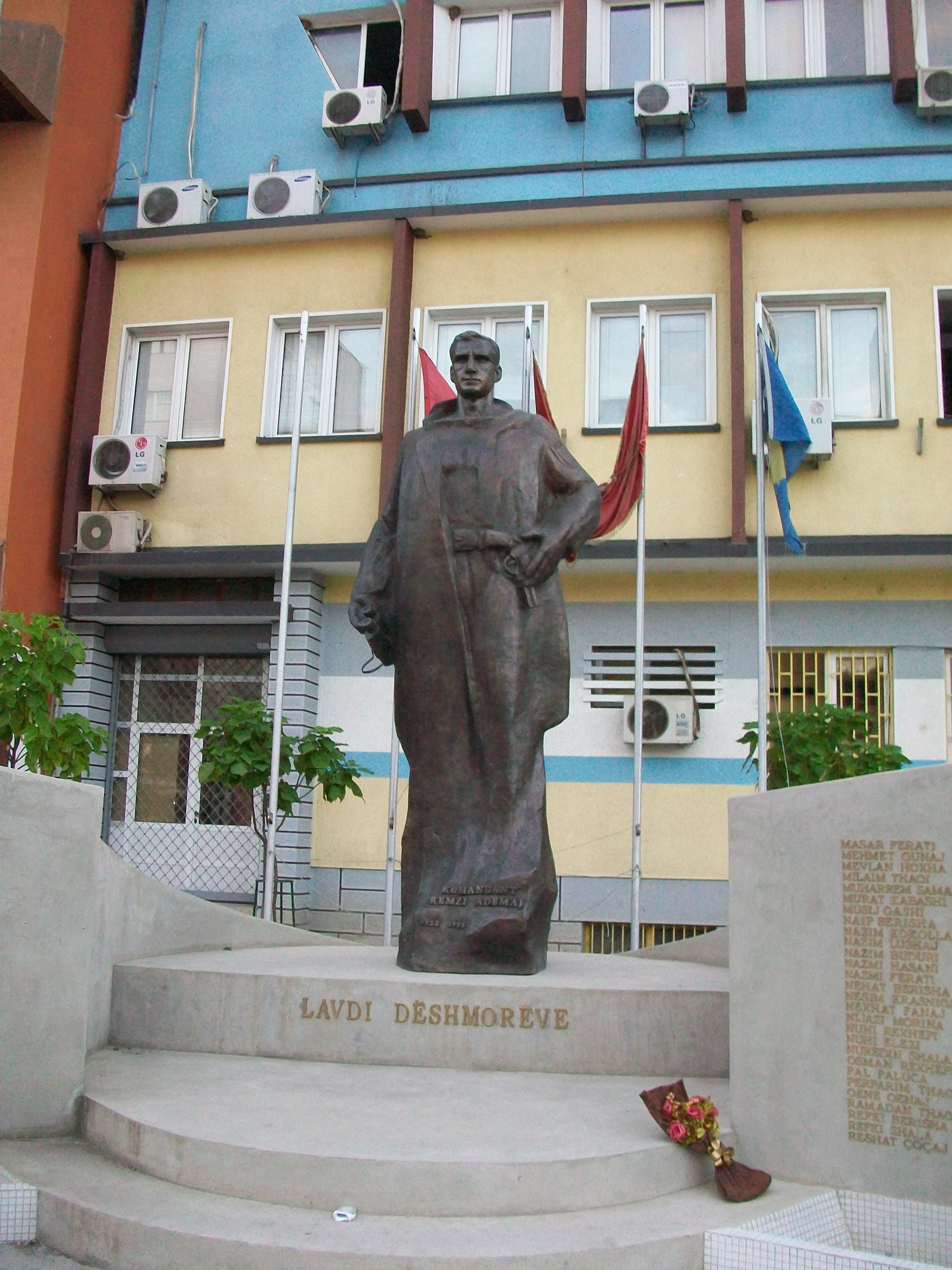 Pictures from Prizren Kosovo